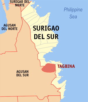 Map of the Surigao del Sur showing the location of Tagbina